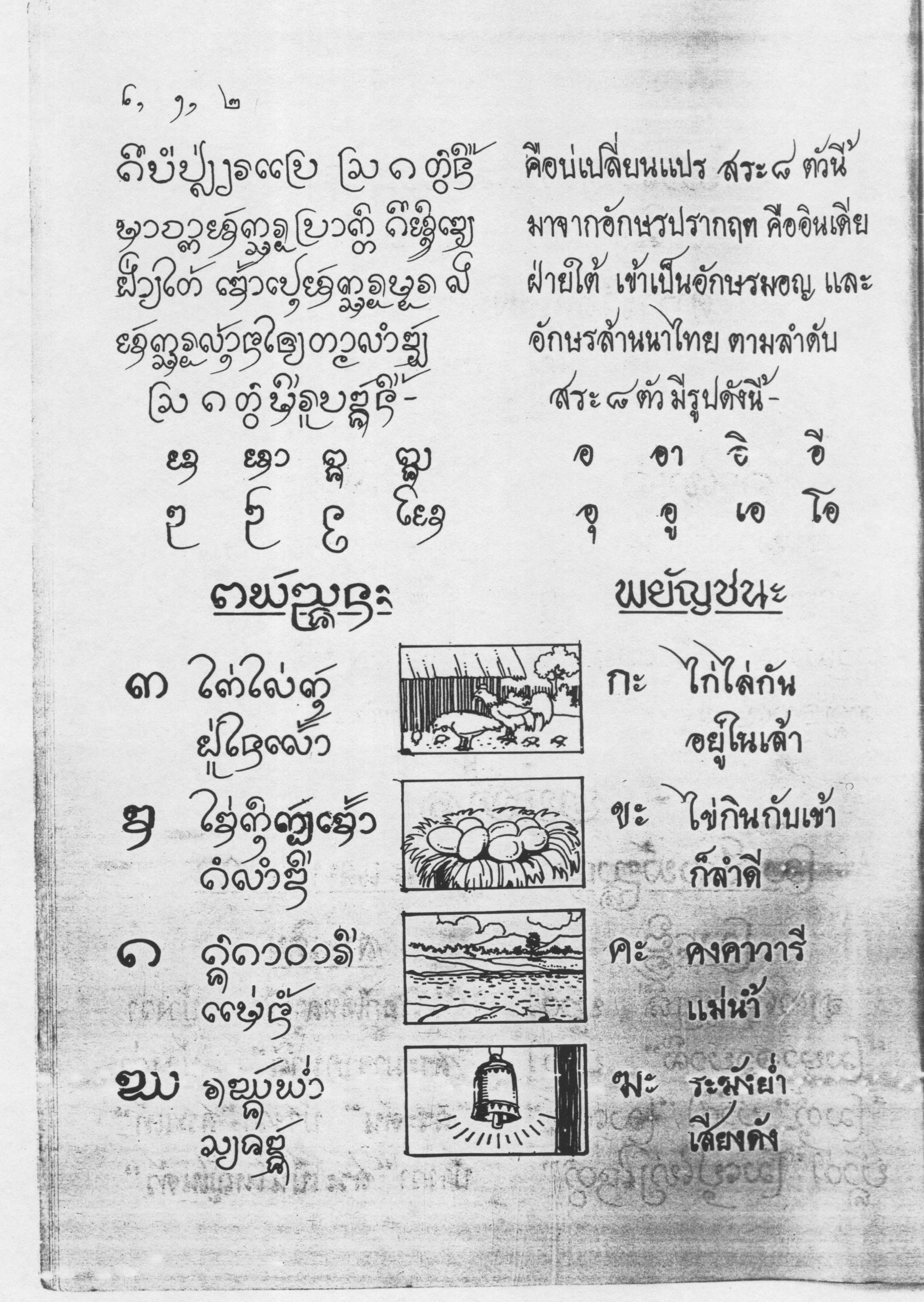 old handwritten Lanna Thai Language study book Author: S. Mani Piomiang, University of Chiang May Source: Chiang Saen Public Library Scanned into electronic form: d schwoerer